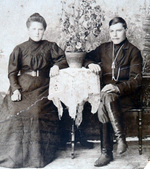 Alexandr Ivanovich Gavrilov and Alexandra Dmitrievna Gavrilova. 1908-1910. Irkutsk (?)